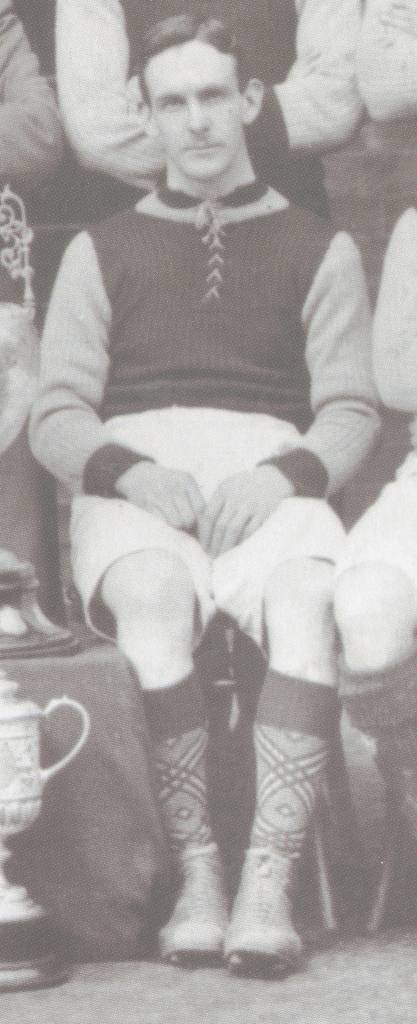 Fred Wheldon cropped from the Aston Villa team photo of 1897.